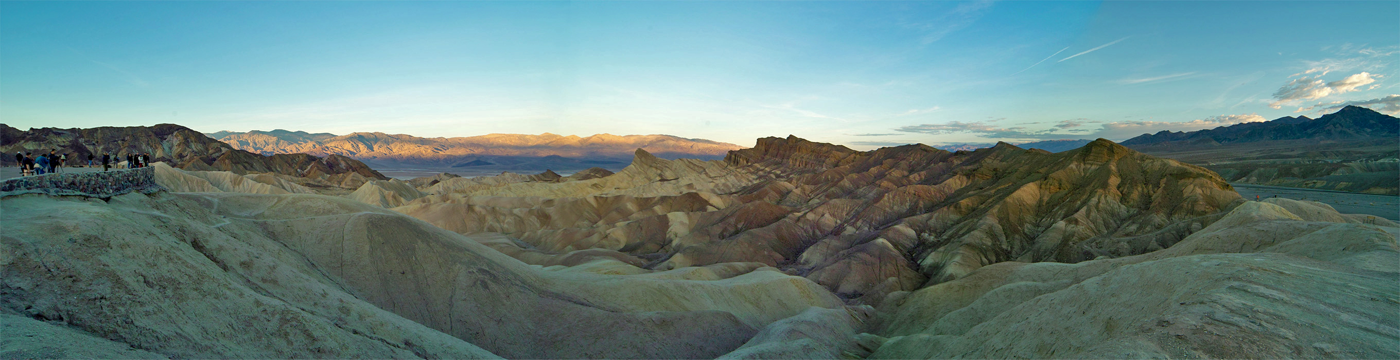 Panoramic view looking west across Death Valley, from Zabriskie Point at sunrise